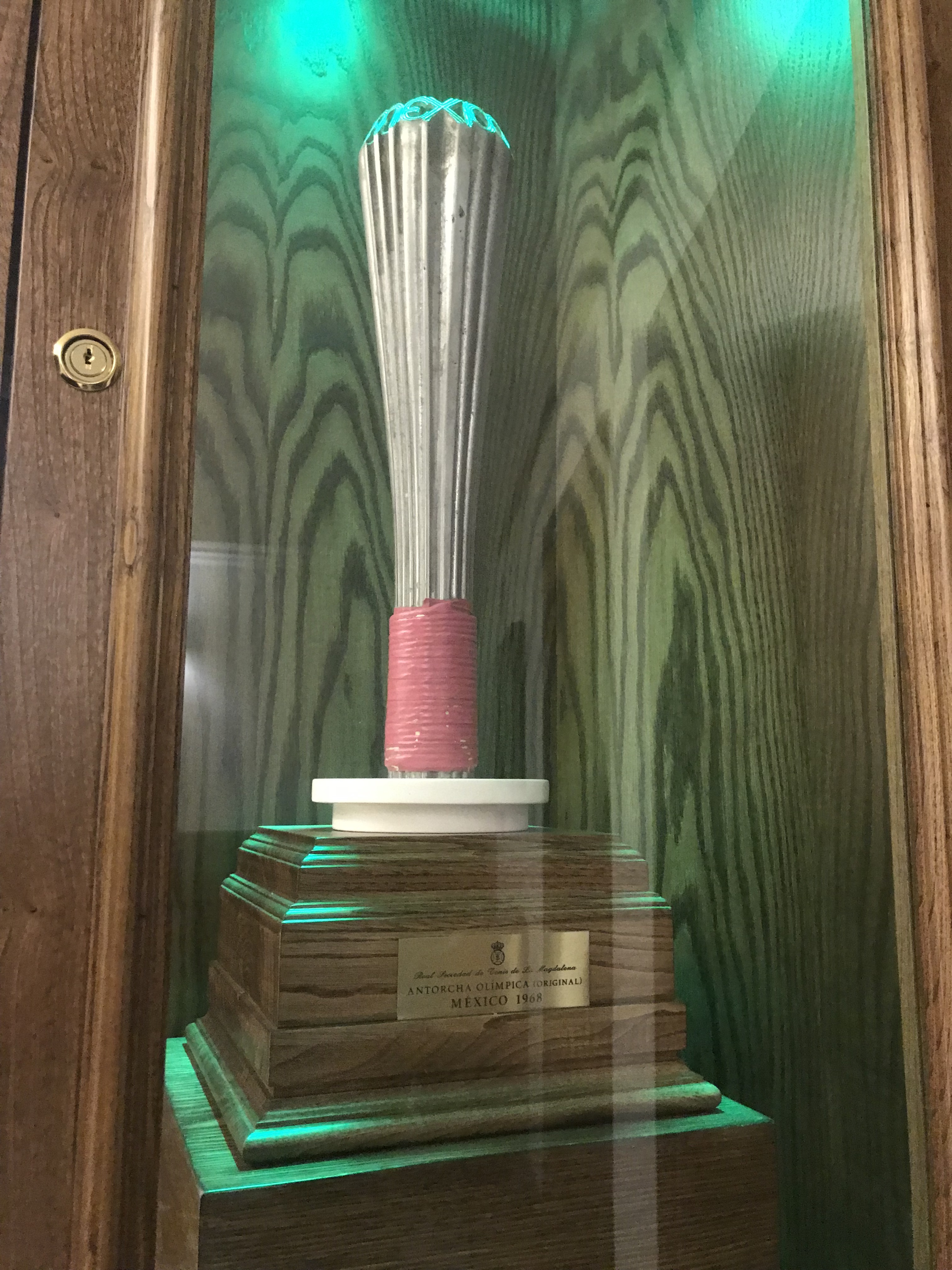 Original Olympic torch used in the Mexico 1968 Olympic Games, as seen in the Real Sociedad de Tenis de la Magdalena, Spain.